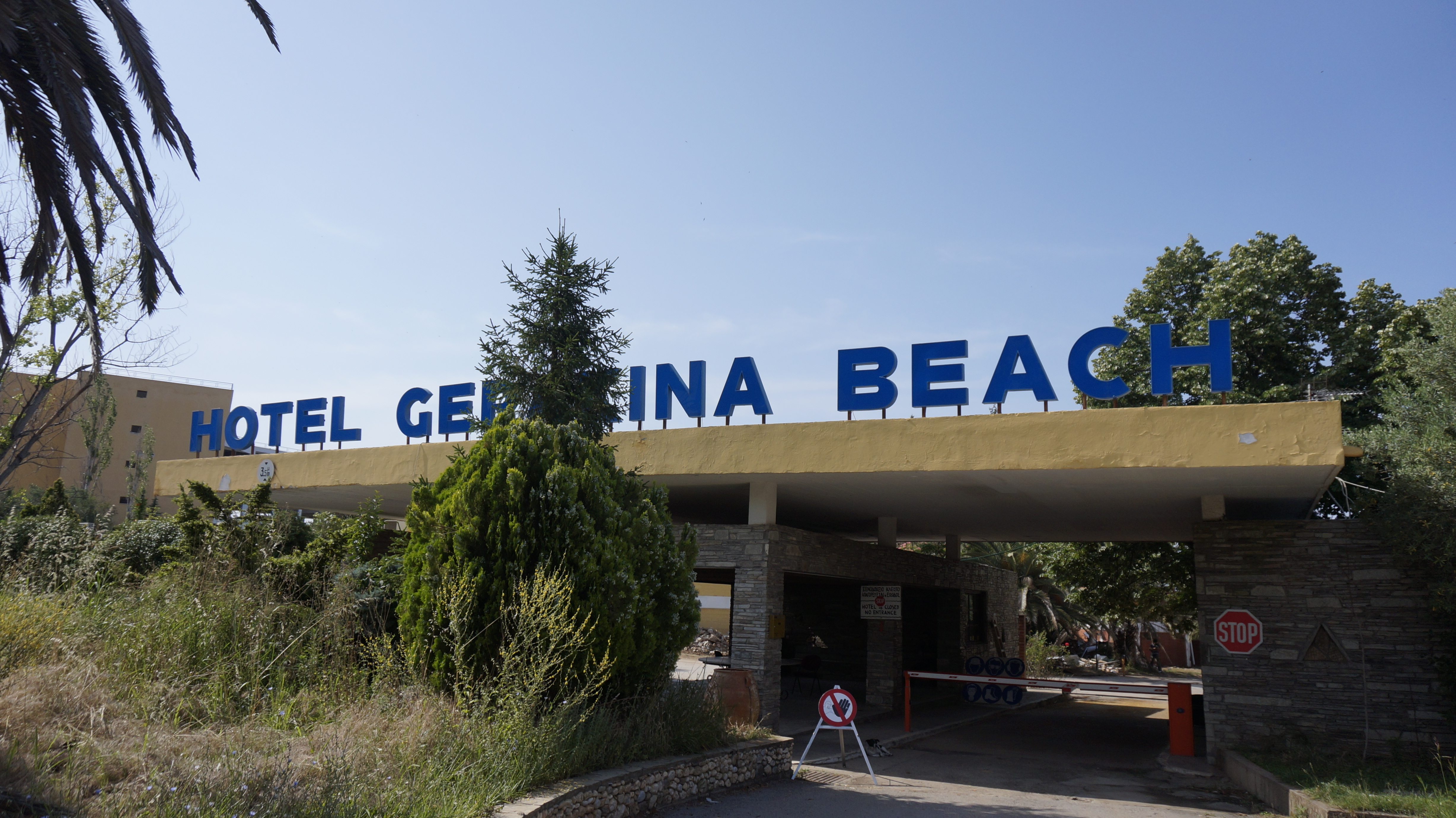 Gerakina Beach Hotel and Bungalows resort complex main entrance, at Yerakini(Gerakini) eastern beach, Chalkidiki, Central Macedonia, Greece, Jun 2014